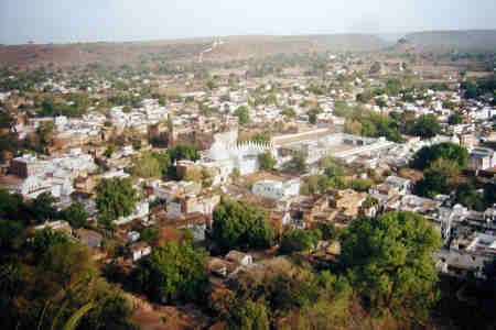 View of Chanderi town from Qila Kothi Image by LRBurdak.